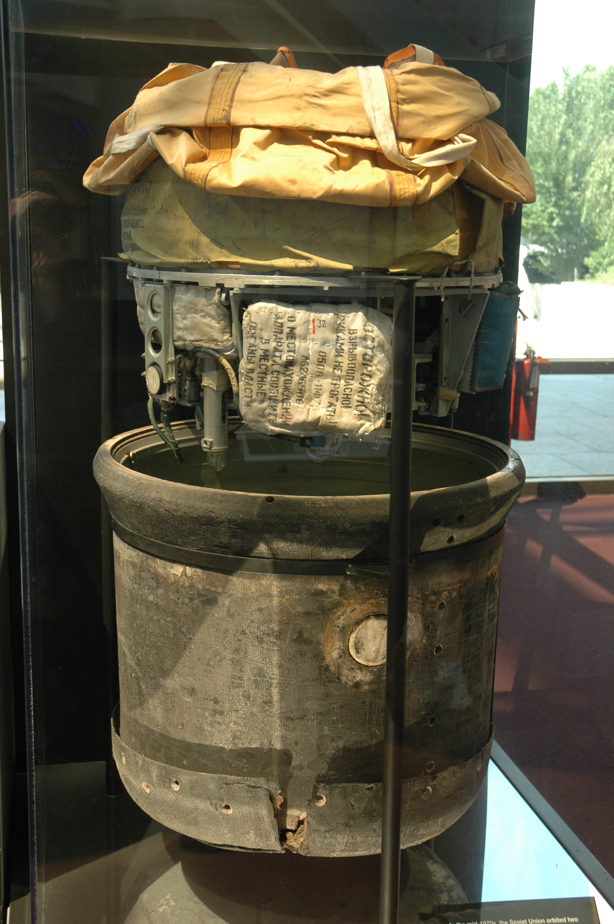 Salyut-5 film return capsule (displayed at the National Air and Space Museum, Washington D.C.)